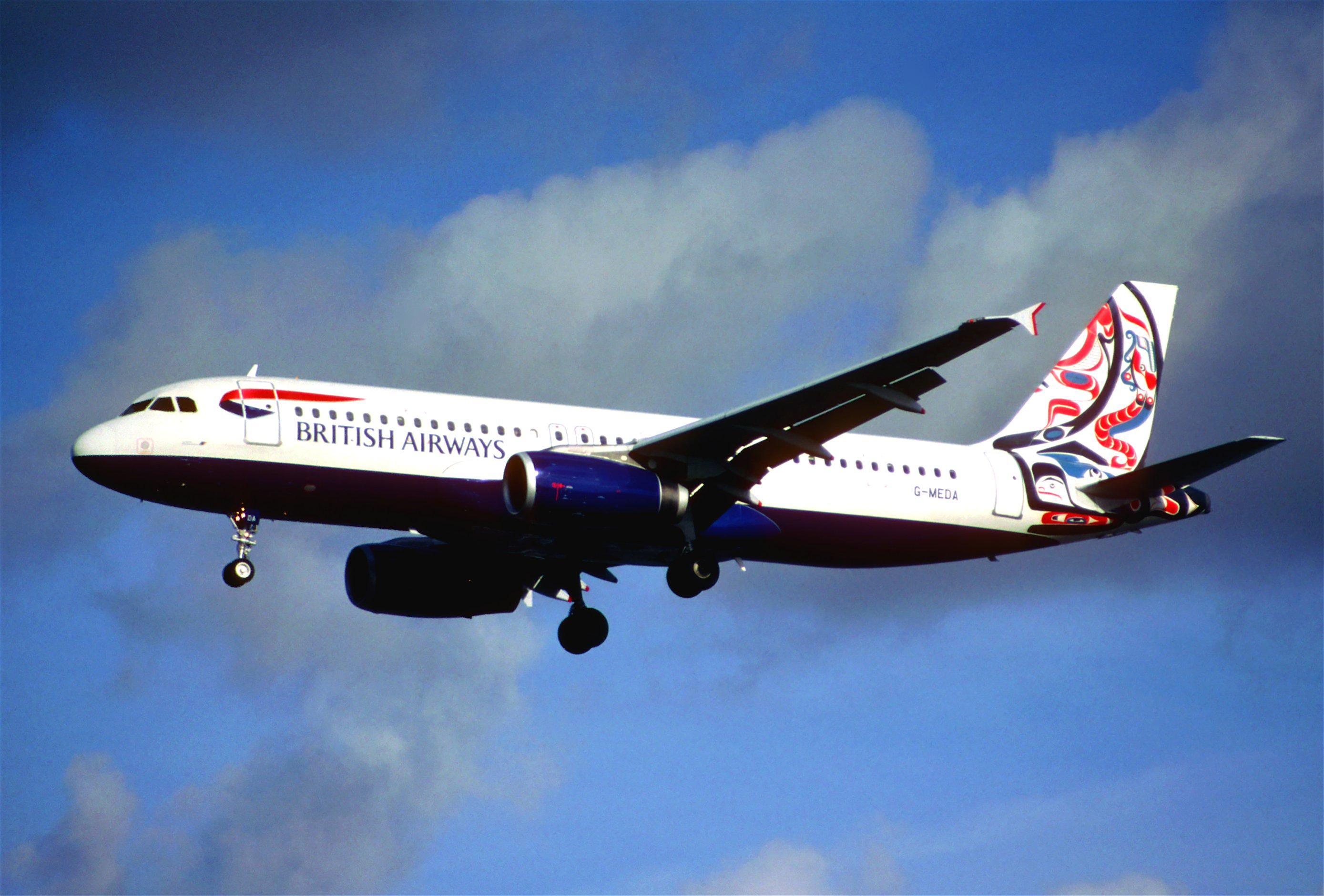 First flight: May 24, 1994...(c/n 480) 01/08/1994 Orix N480RX 12/10/1994 British Mediterranean Airways G-MEDA stored 03/2006 20/05/2006 Indian Airlines VT-EYL 24/08/2007 Air India VT-EYL returned to lessor Orix 07/2011